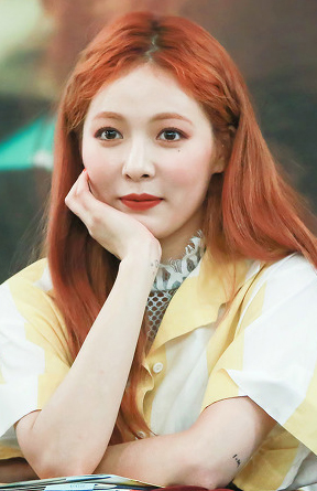 HyunA at a fansign on May 12, 2017